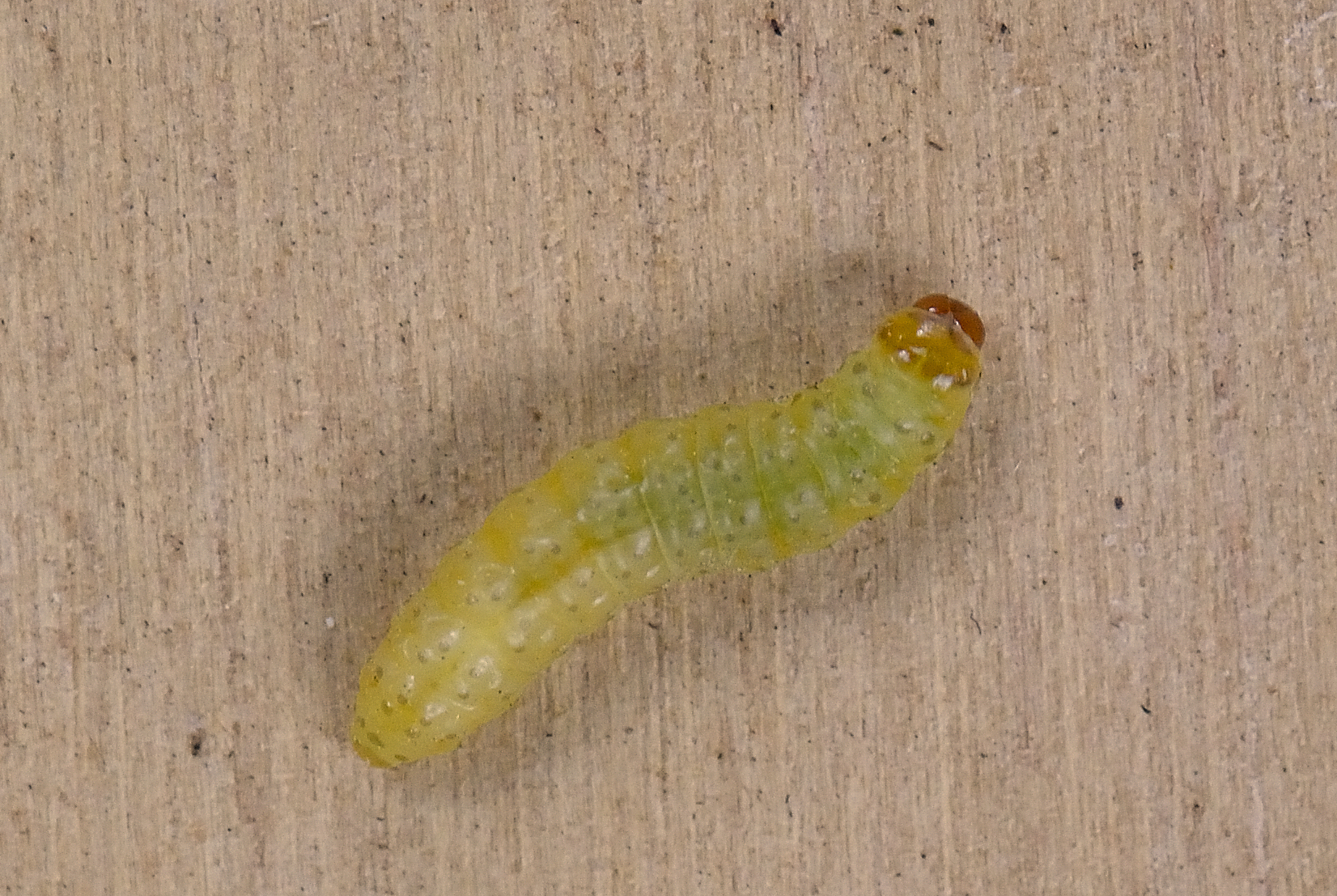 Cydia nigricana at Pisum sativum 'Kelvedon Wonder'. Length 10 mm.